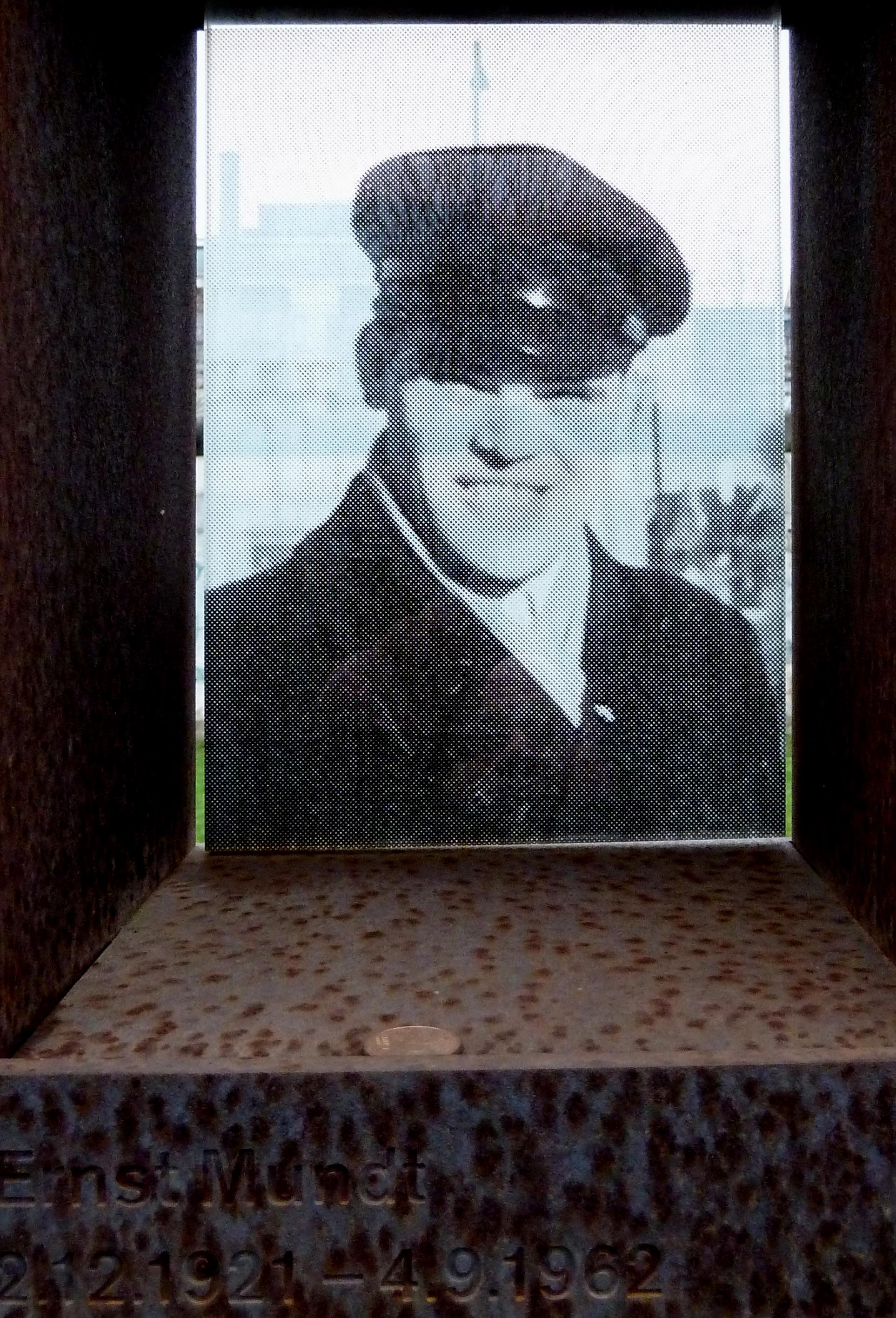 Ernst Mundt at the Wall of Rememberance, Bernauer Straße, Berlin